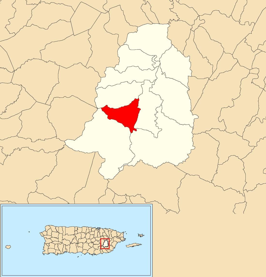 Quebrada Honda, San Lorenzo, Puerto Rico locator map